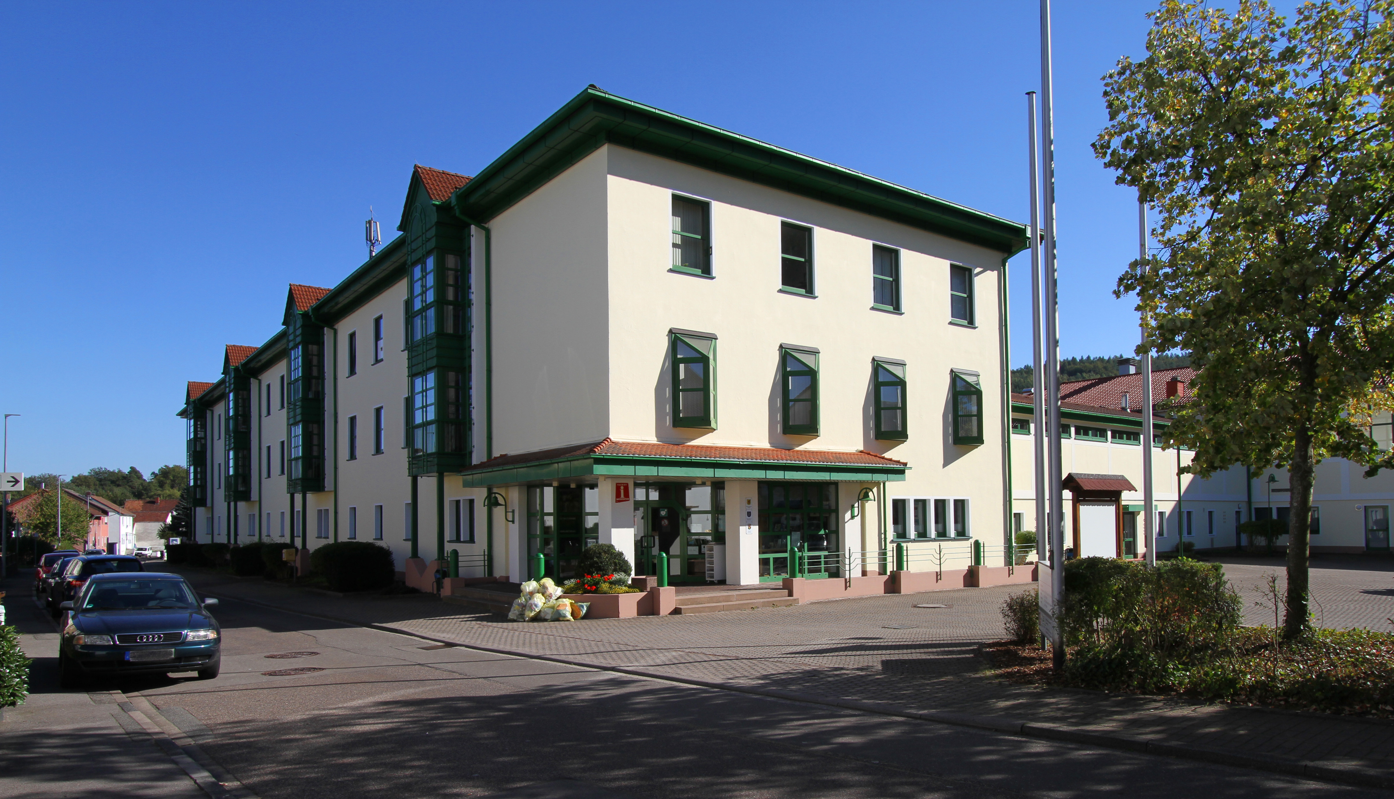 Building of the administration of the Collective municipality Rodalben